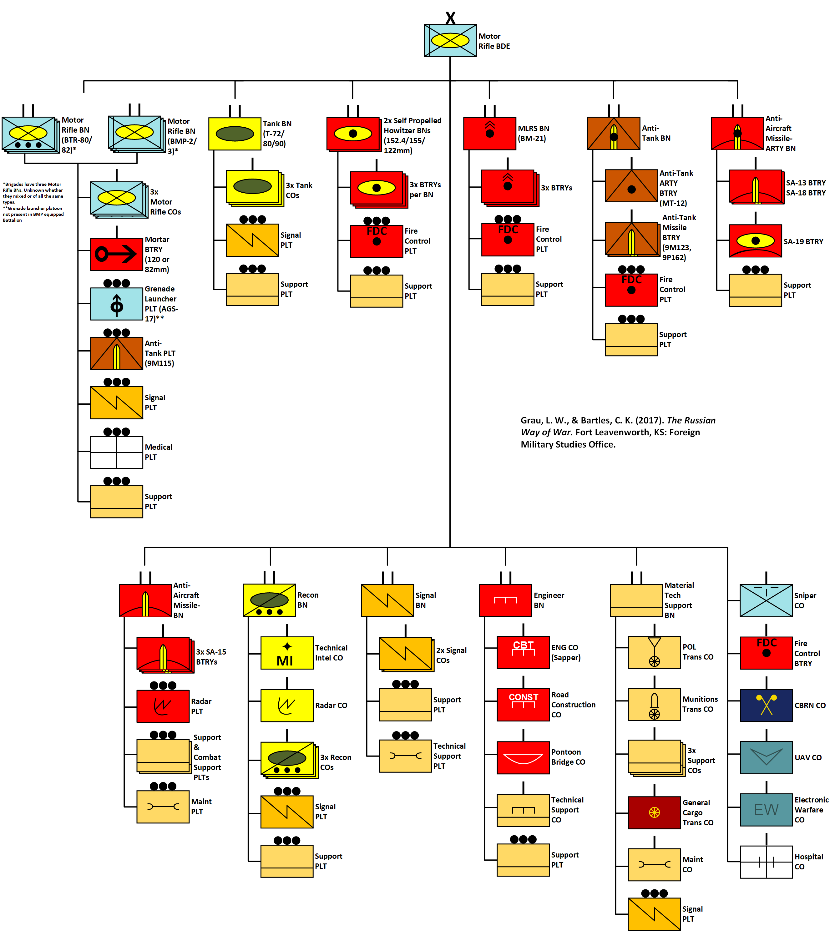 Organization of modern Russian motorized rifle brigade as outlined in The Russian Way of War